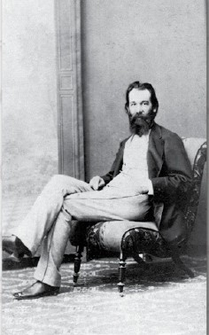 Milan Jovanović Morski (1834-1896). Serbian doctor and a member of the Academy of Arts